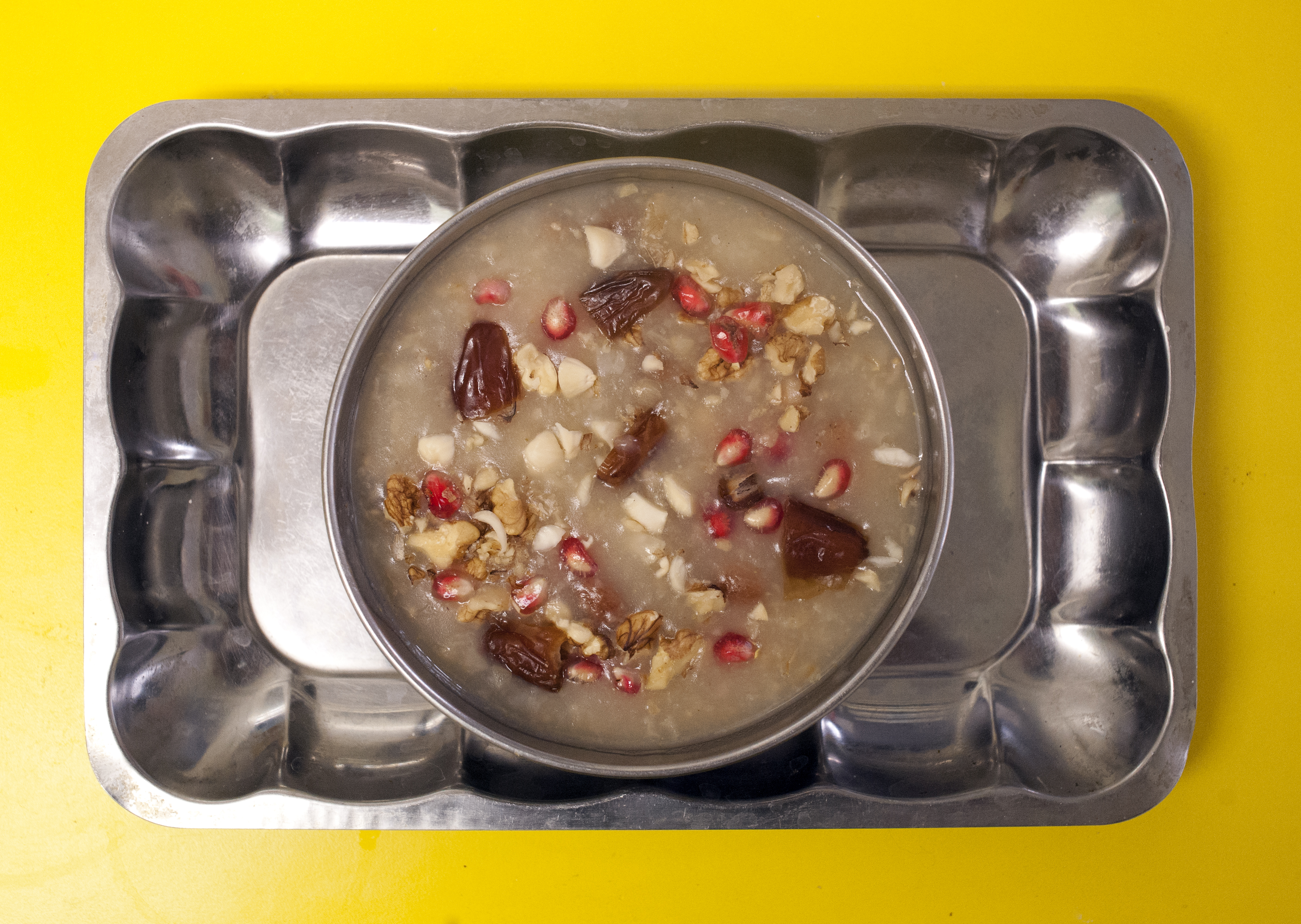 Ashure traditional desert in Komotini, Greece.